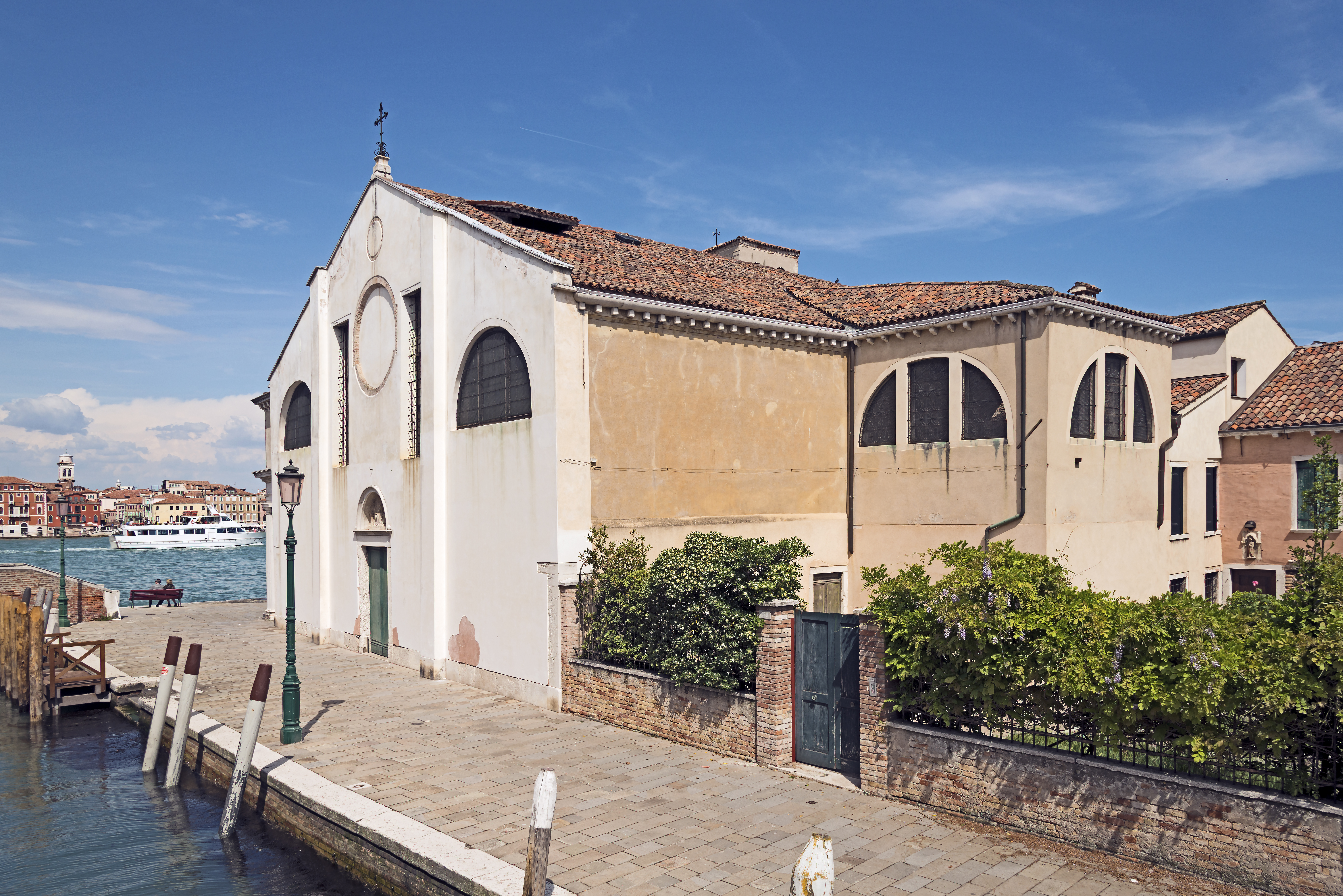 Church of Sant'Eufemia Venice from private bridge over the Rio S.Eufemia